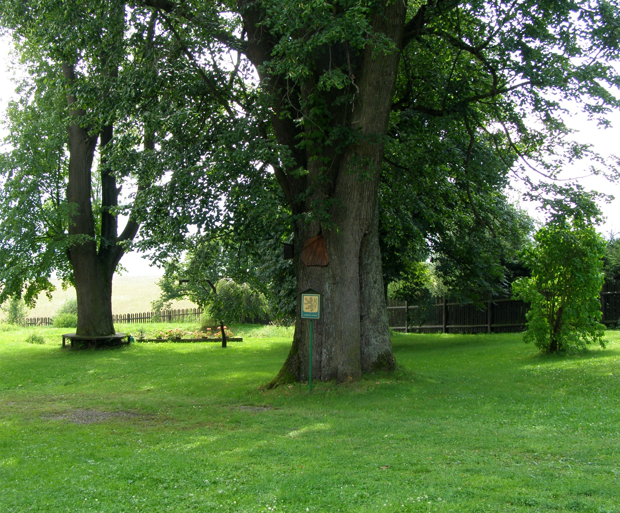 Malá Morava-Vojtíškov. Famous tree